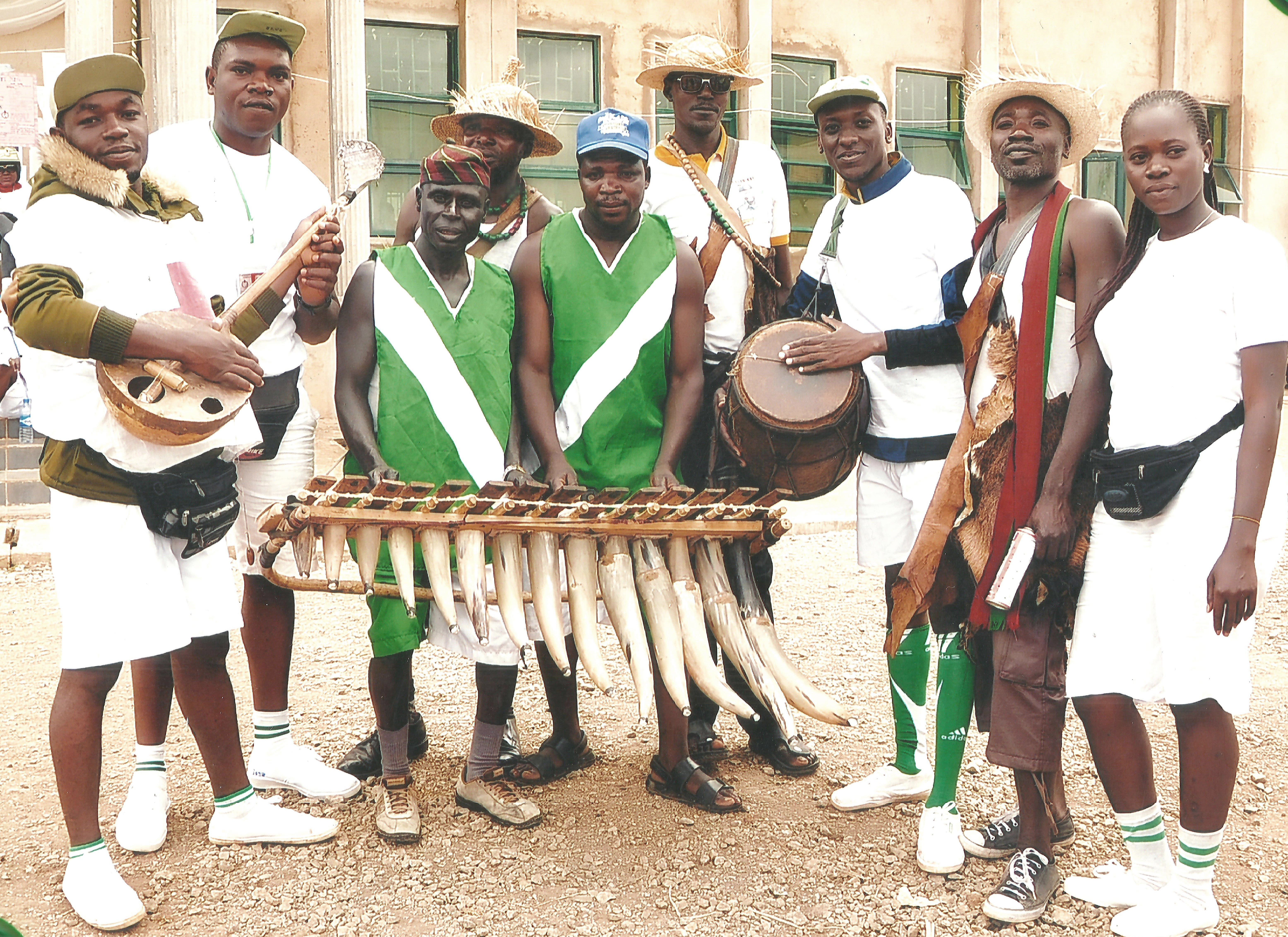 plateau state village native musicians from Nigeria,with their locally crafted xylophone made from horns,drums and a locally crafted guitar posing with core members after a purely African cultural music performance. This is an image of Cultural Fashion or Adornment from Nigeria